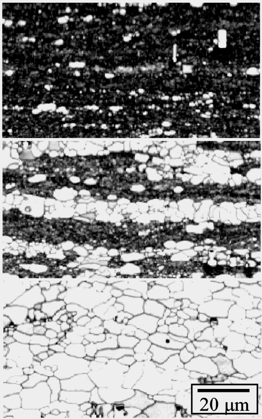 Created by Slinky Puppet on 20th Dec 2005 for use in Recrystallization (metallurgical) article. Three images showing the progressive increase in recrystallized volume fraction in an Al-Mg-Mn alloy. Images produced using EBSD at Manchester University (2003) and are from my own research (but they don't show anything new or debatable so I don't think the 'no original research' policy applies).